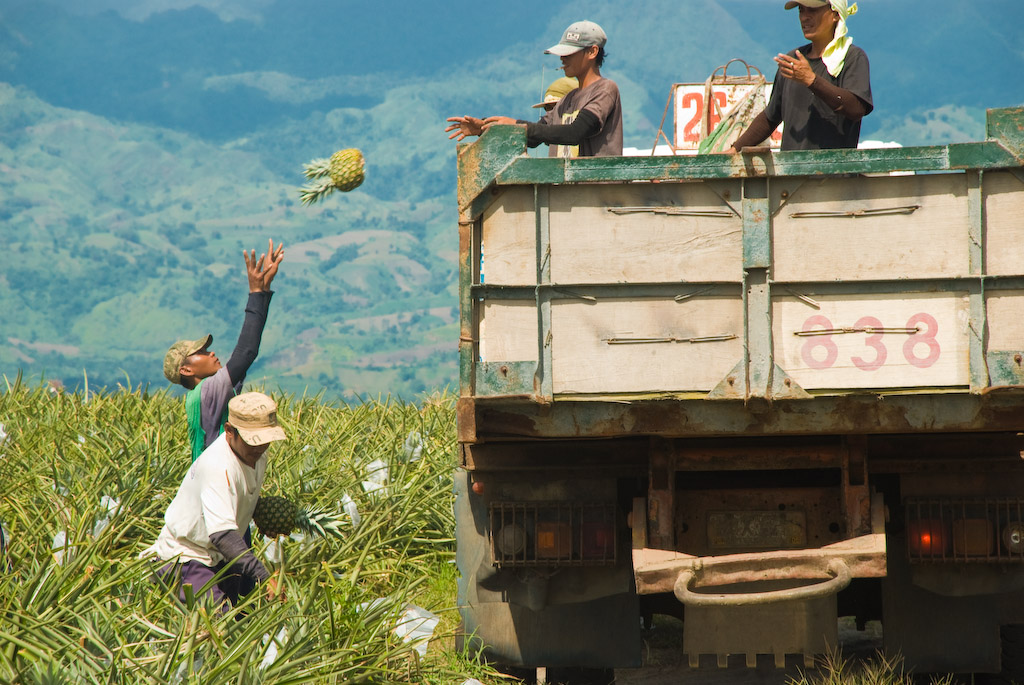 Pineapple Harvesting near station 3, Barangay Palkan Polomolok South Cotabato. Image Taken 15 May 2009, during our home vacation.